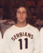 Mike Bakić with the Serbian White Eagles indoor squad in 1973.